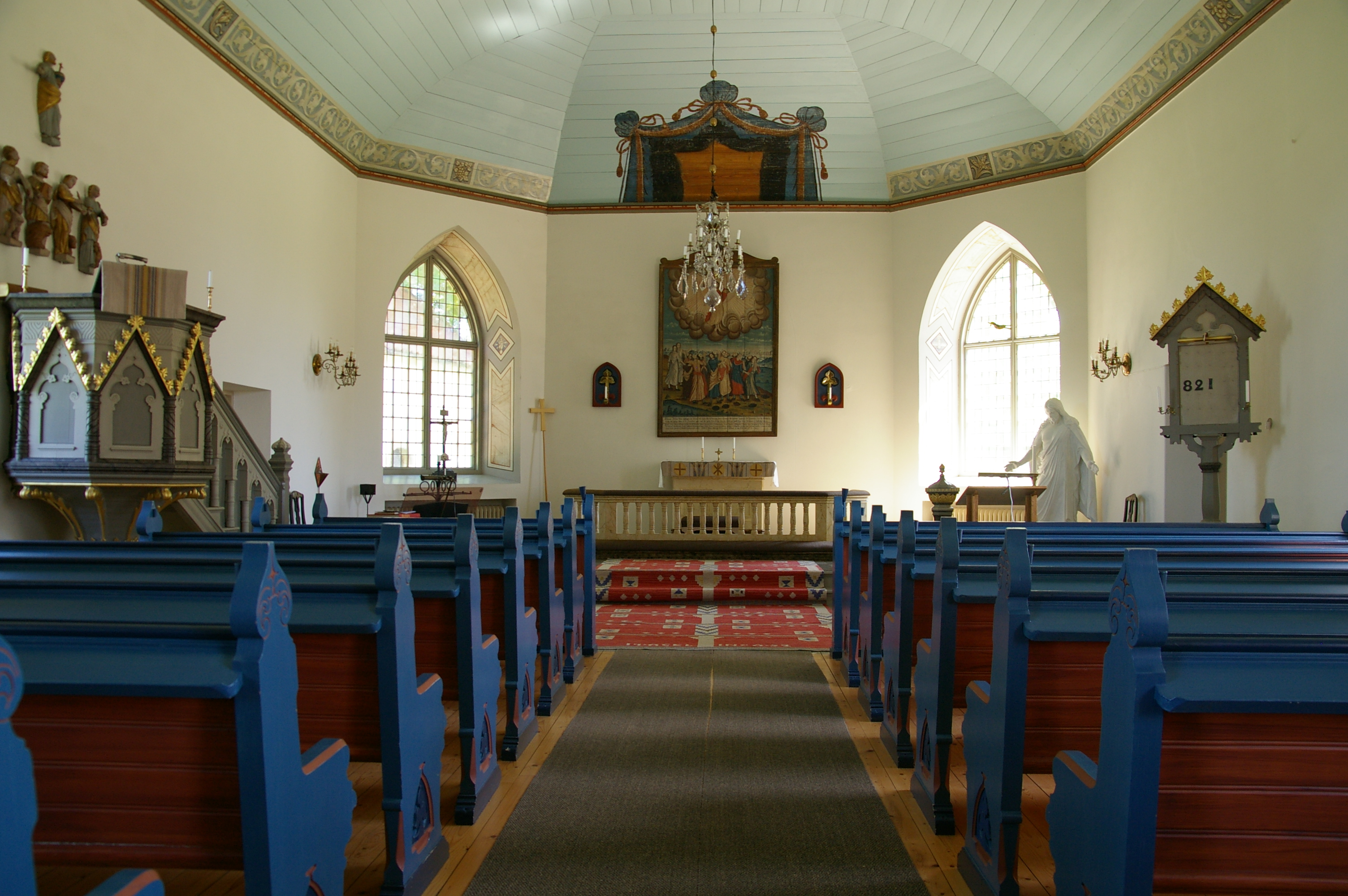 Acklinga kyrka (Swedish:Church of Acklinga) in Västergötland, Sweden